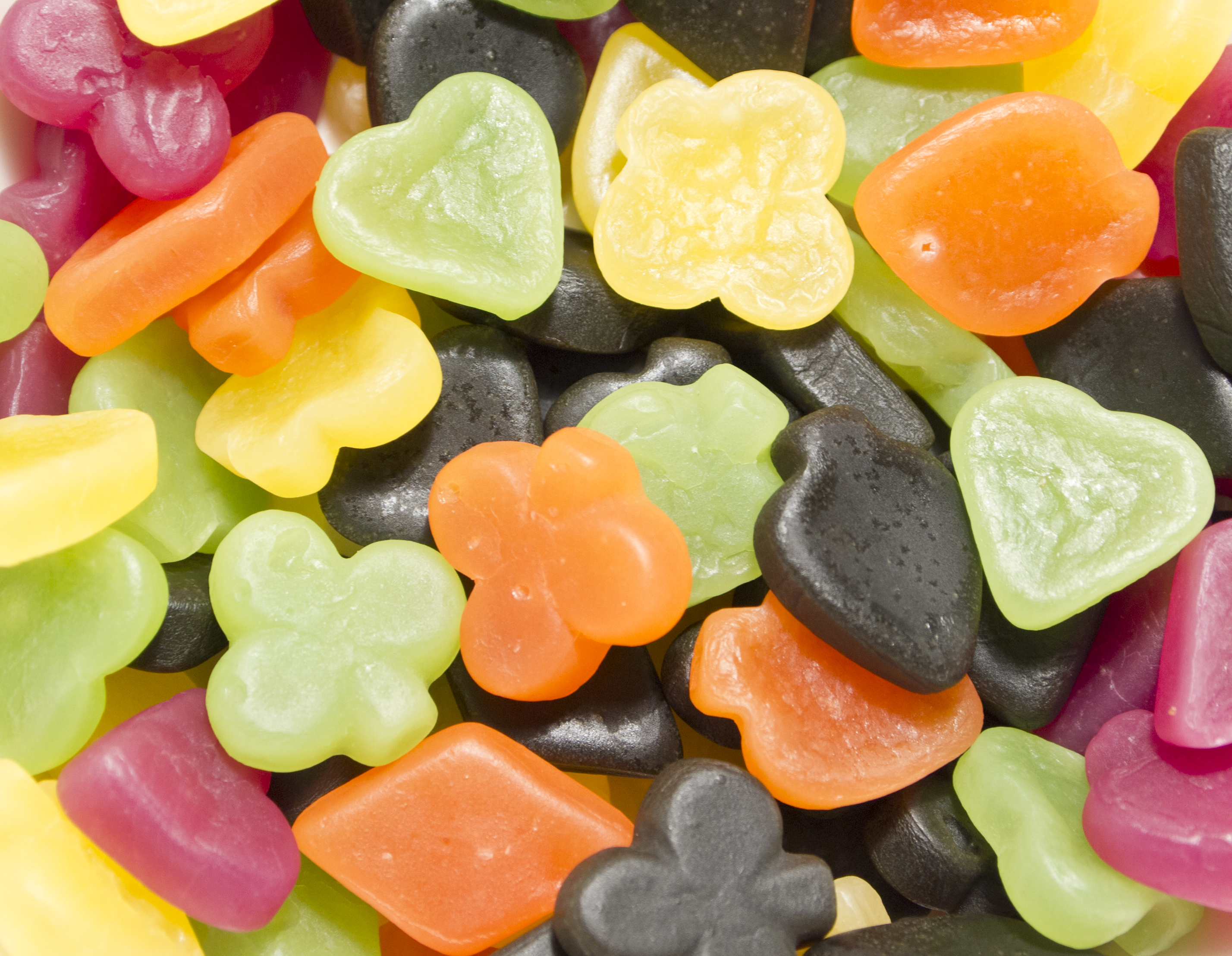 Candy assortment Ässä Mix incluiding fruit and salmiak flavoured candies by Fazer. They are shaped like the suits (spades, hearts, diamonds and clubs) in playing cards.